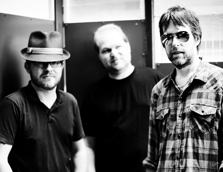 Detroit rock and roll band Jeremy Porter & The Tucos c. 2011. LtoR: Jason Bowes, Gabriel Doman, Jeremy Porter. Photo: Angie Papalas, Chicago, July 16, 2011.